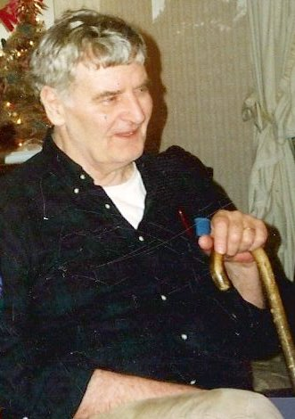 Photo of George Harry Sweigert, the inventor of the radiotelephone, at Christmas, 1997